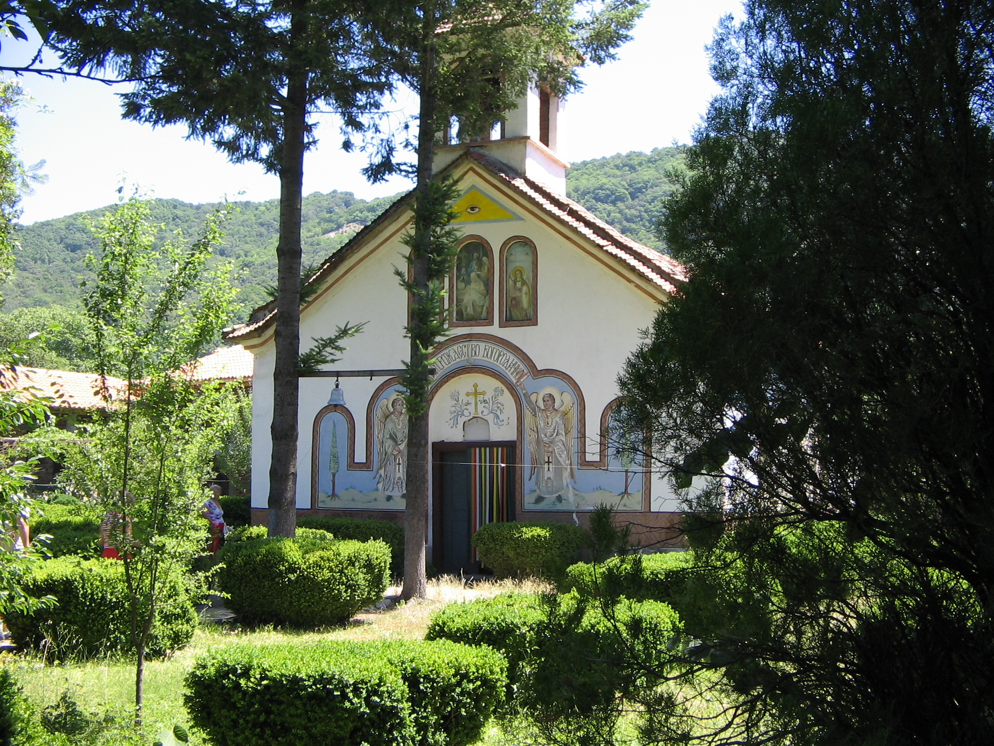 The Kalofer monastery "Nativity of the Theotokos" inside. Bulgaria